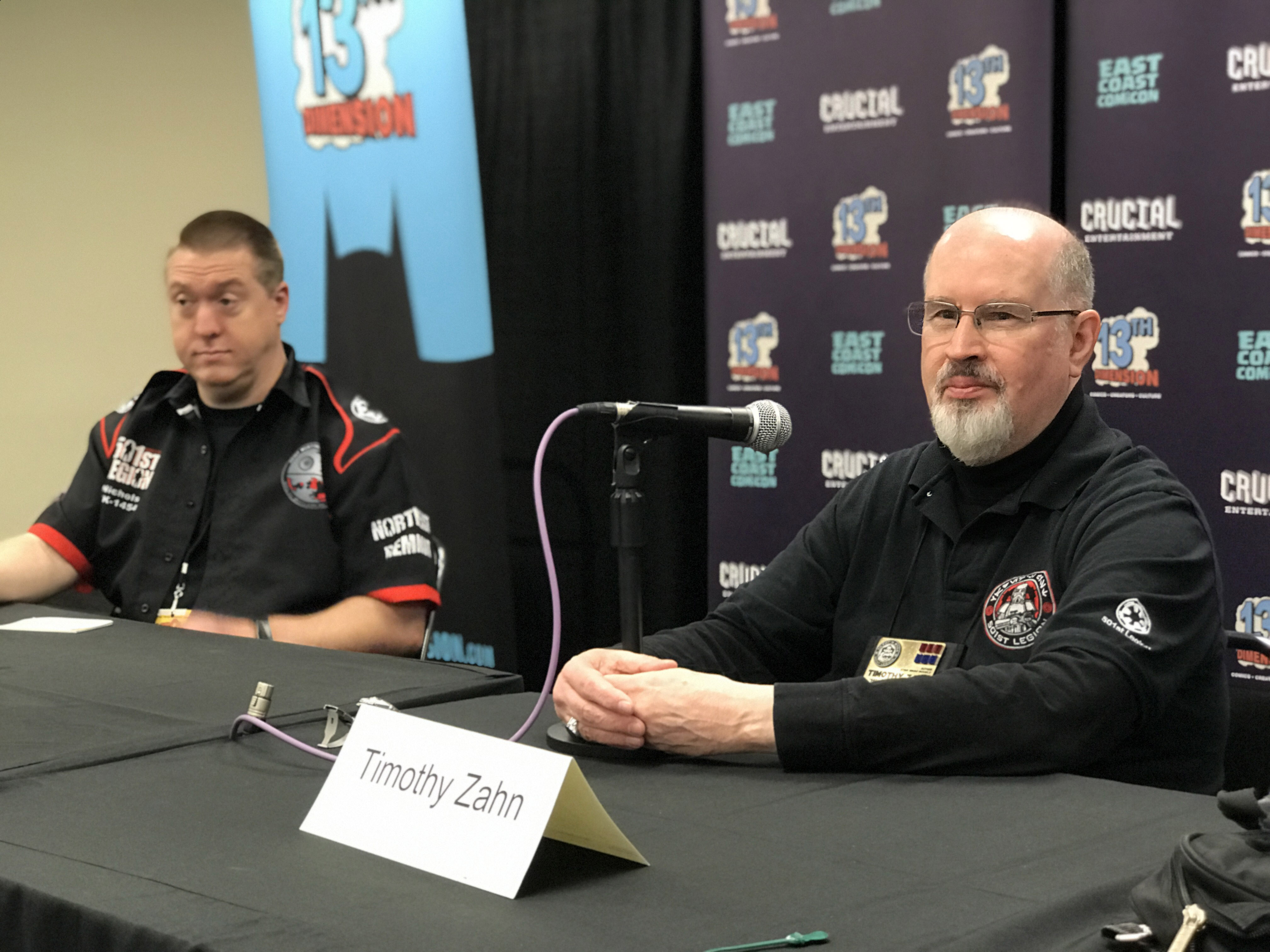 At right: American science fiction and fantasy author Timothy Zahn during a Q&A discussion at the Meadowlands Exposition Center in Secaucus, New Jersey on Sunday, April 29, 2018, Day 3 of the East Coast Comicon. At left, acting as moderator is Jeffrey Nichols, a member of the 501st Legion, a Star Wars cosplay group. This photo was created by Luigi Novi. It is not in the public domain, and use of this file outside of the licensing terms is a copyright violation.